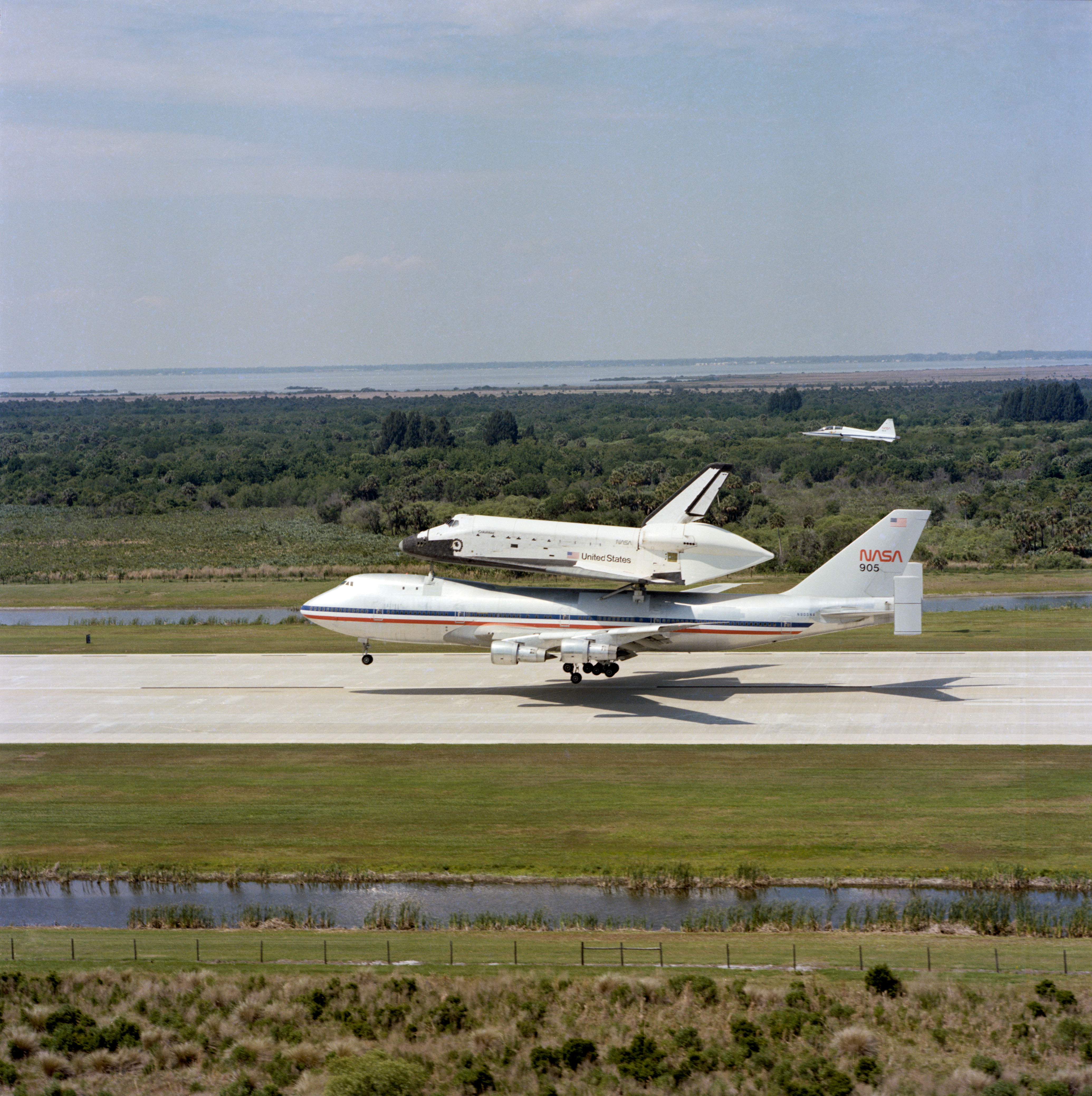 Space Shuttle Columbia being returned to Kennedy Space Center after STS-1, mated to Shuttle Carrier Aircraft NASA 905.